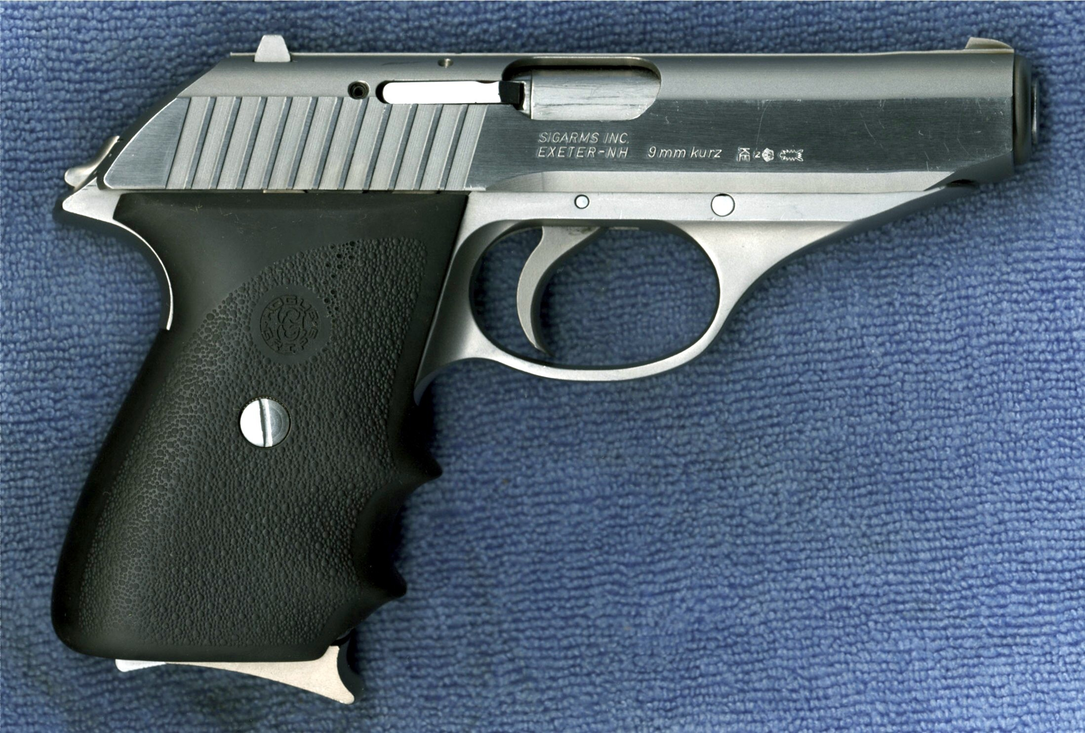 Sig Sauer P230 SL as viewed from right. Note hammer cocked. Serial number digitally obscured. Hogue grips are factory installed on the SL model.